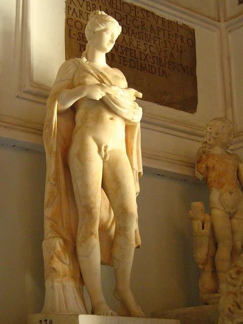 Hermaphroditus, Capitoline Museum, Palazzo Nuovo, Hall of the Doves.